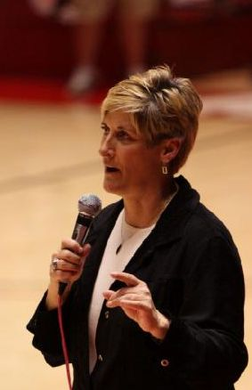 Elaine Elliott, coach of University of Utah's Women's Basketball.